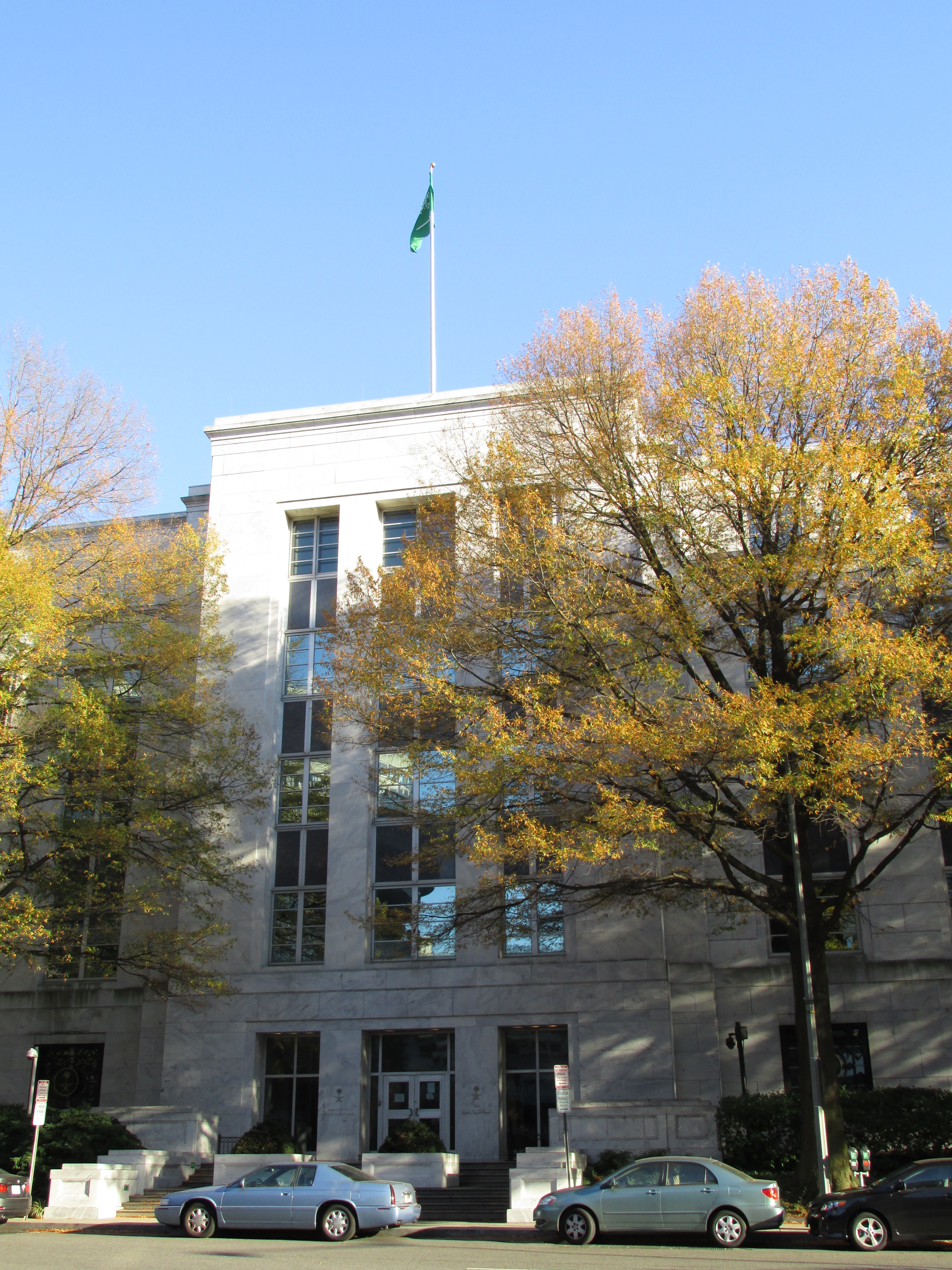 Embassy of the Kingdom of Saudi Arabia in Washington, D.C. (United States), 601 New Hampshire Avenue Northwest Washington, DC 20037.